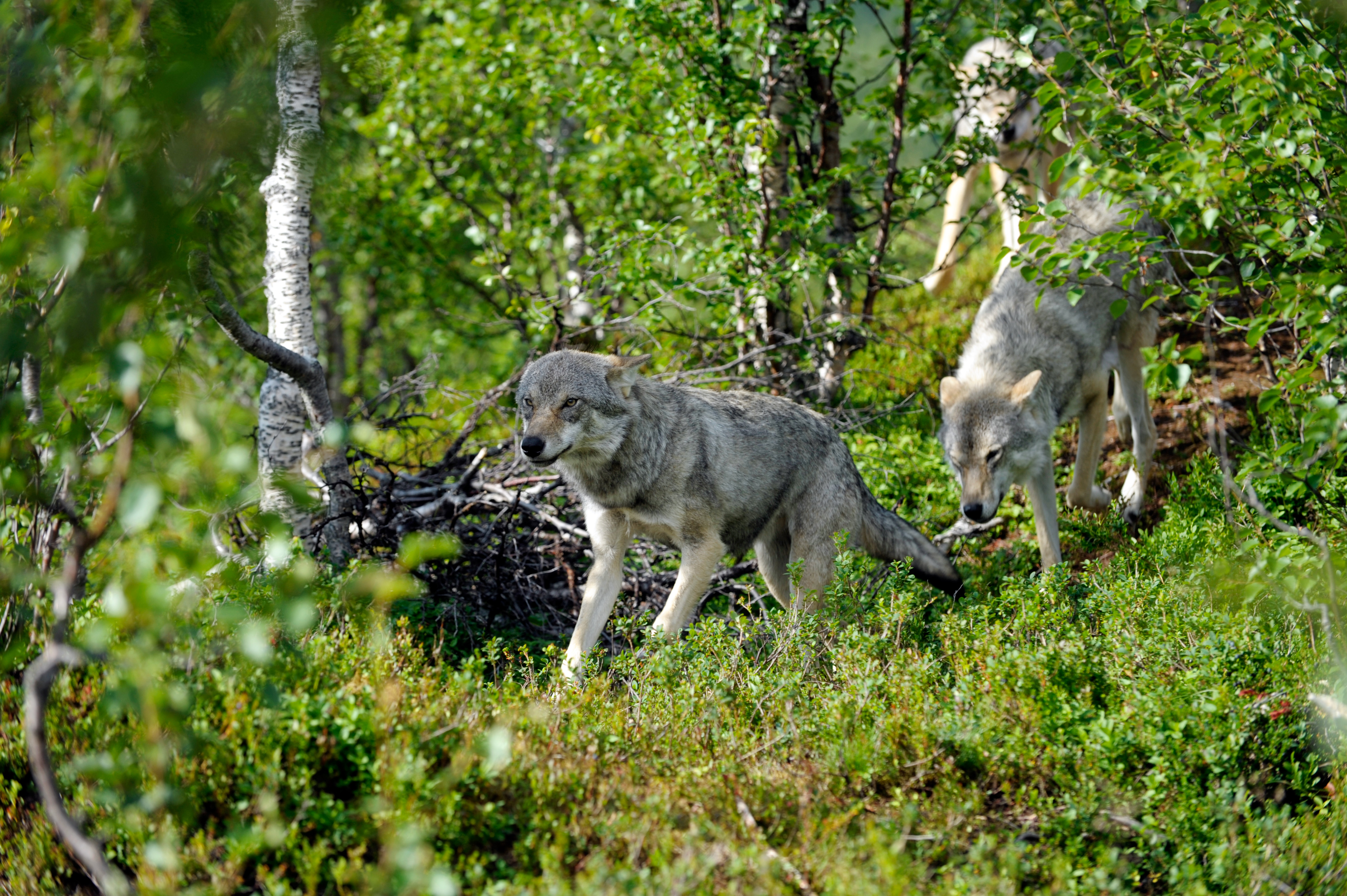 Varg fotograferad på Polar Zoo Norge Keywords: Animals, Nature